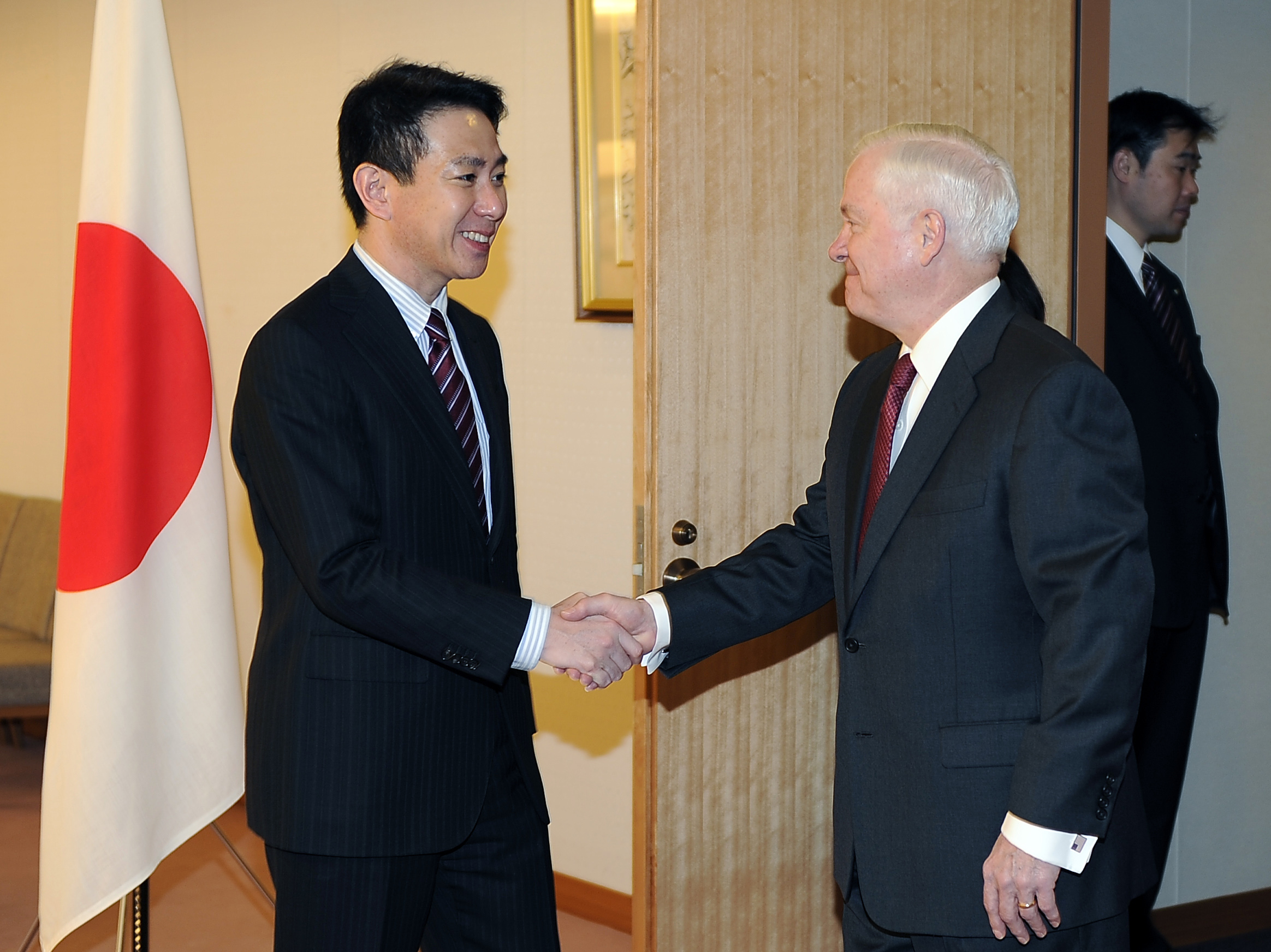 Secretary of Defense Robert M. Gates is greeted by Japanese Foreign Affairs Minister Maehara Seiji at the Japanese Ministry of Foreign Affairs in Tokyo, Japan, on Jan. 13, 2011.